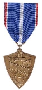 The Commemorative Medal for the Defence of Slovakia. Photo of my own medal bought at a Militaria shop in Prague.